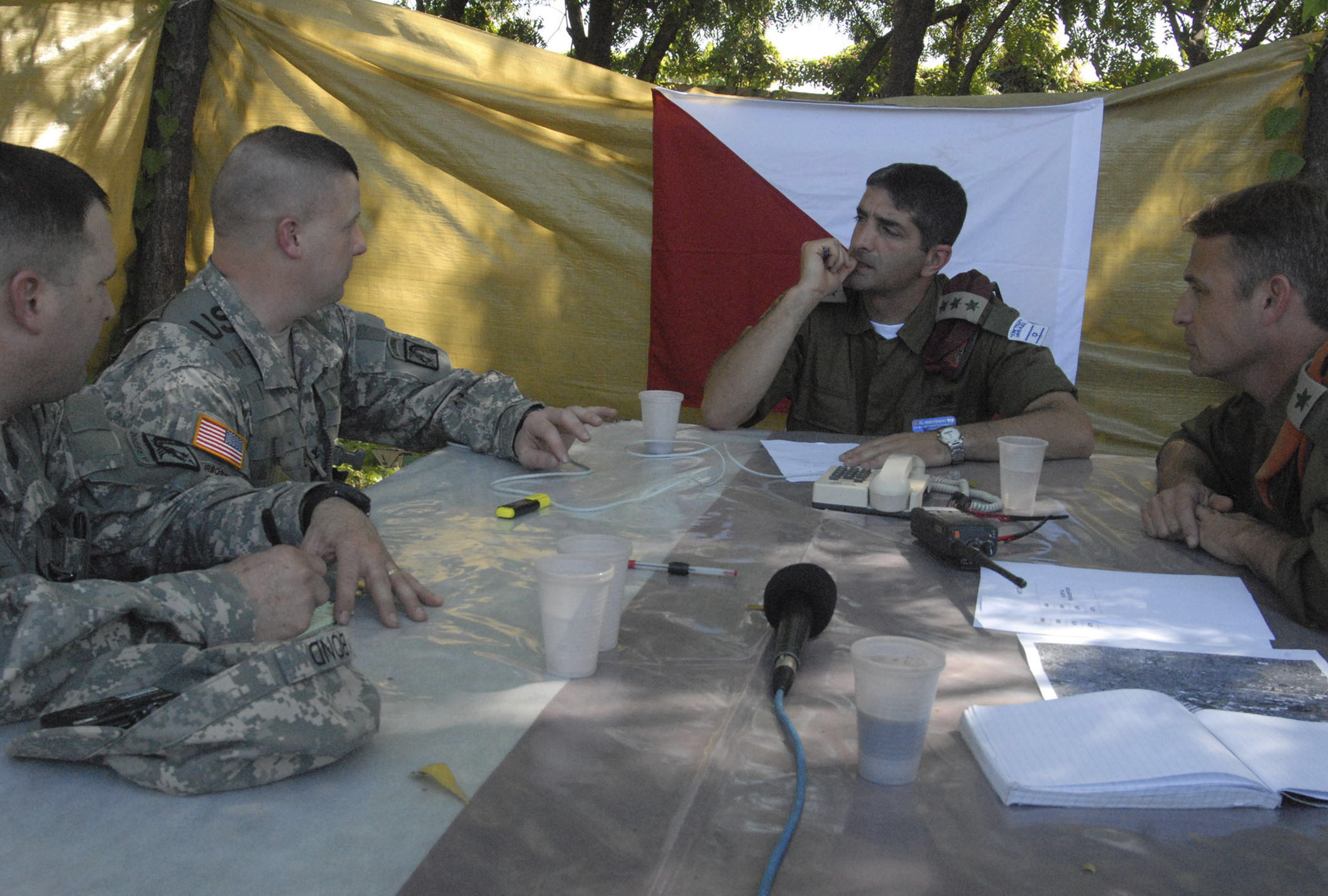 January 19, 2010. Field hospital commander, Col. Dr. Itzik Kryce, with the commander of the US delegation. After the devastating earthquake which struck Haiti in January 2010, Israel sent an aid delegation of over 250 personnel to help with search and rescue efforts and establish a field hospital in Port-au-Prince.